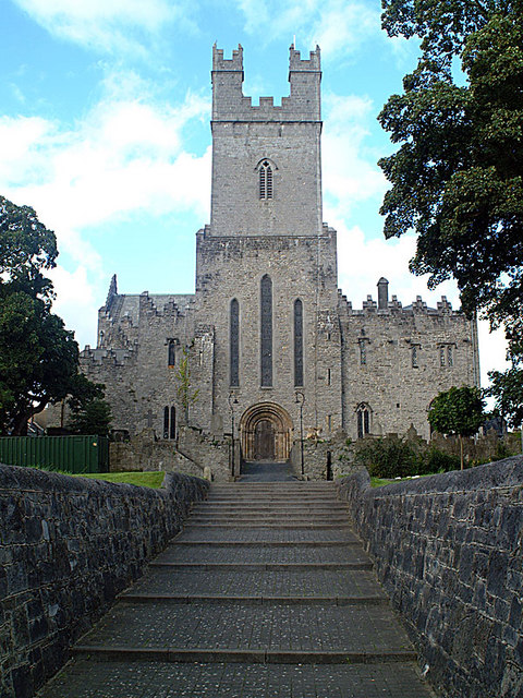 St. Mary's Cathedral, Limerick View of St. Mary's Cathedral taken from Merchants Quay, Limerick